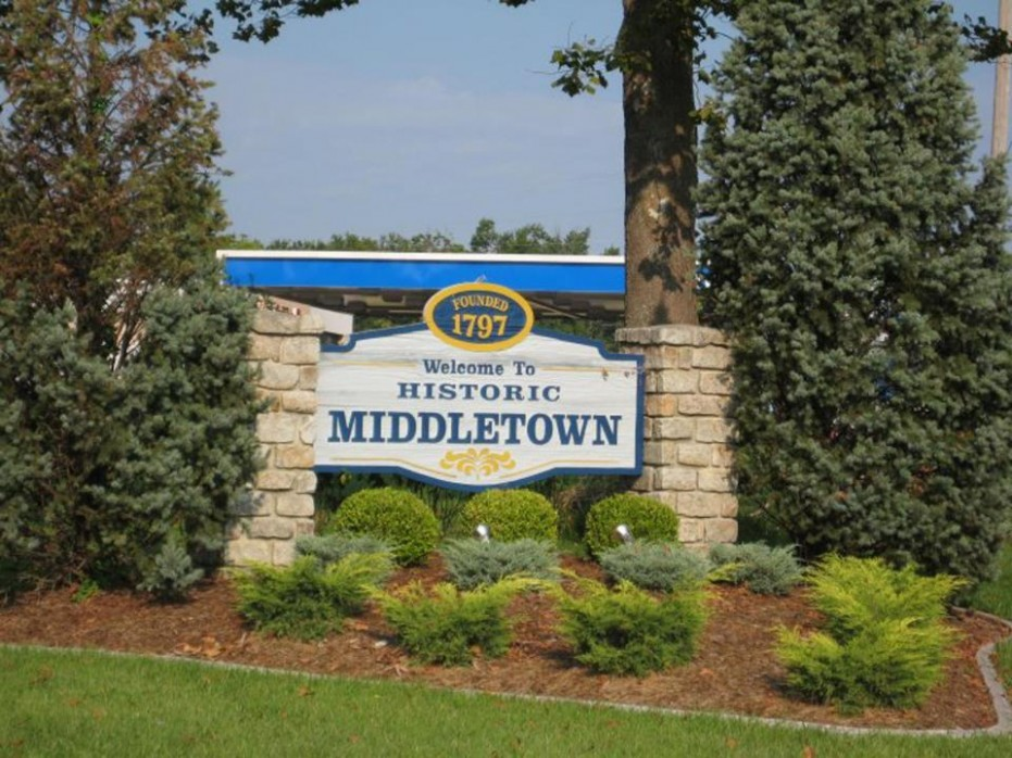 Middletown welcome sign